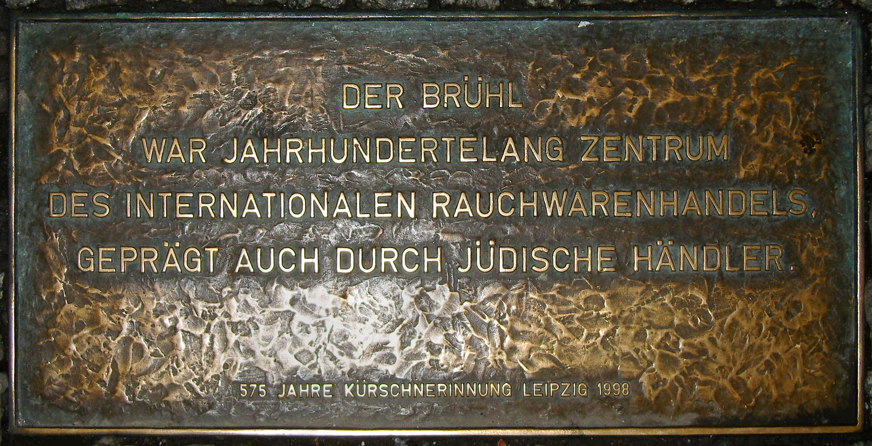 Remembering the fur trade in Leipzig, also the jewish fur traders